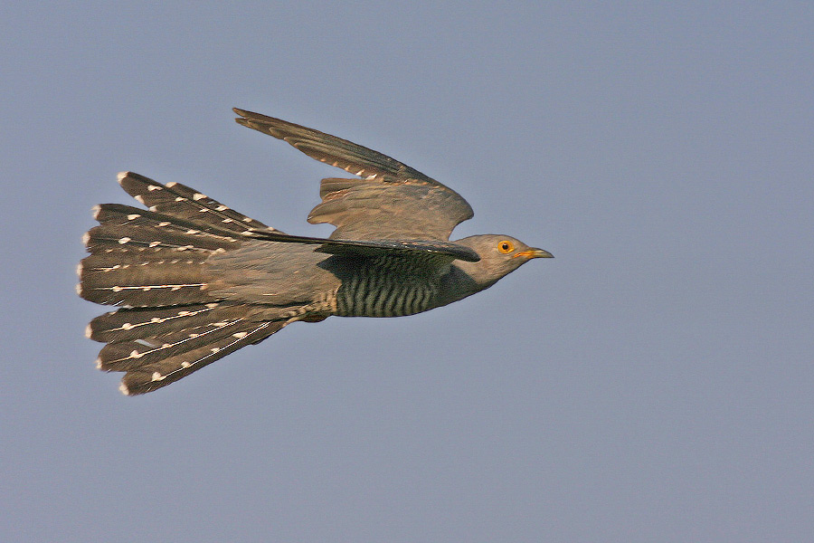 Cuckoo (Cuculus canorus) in flight.